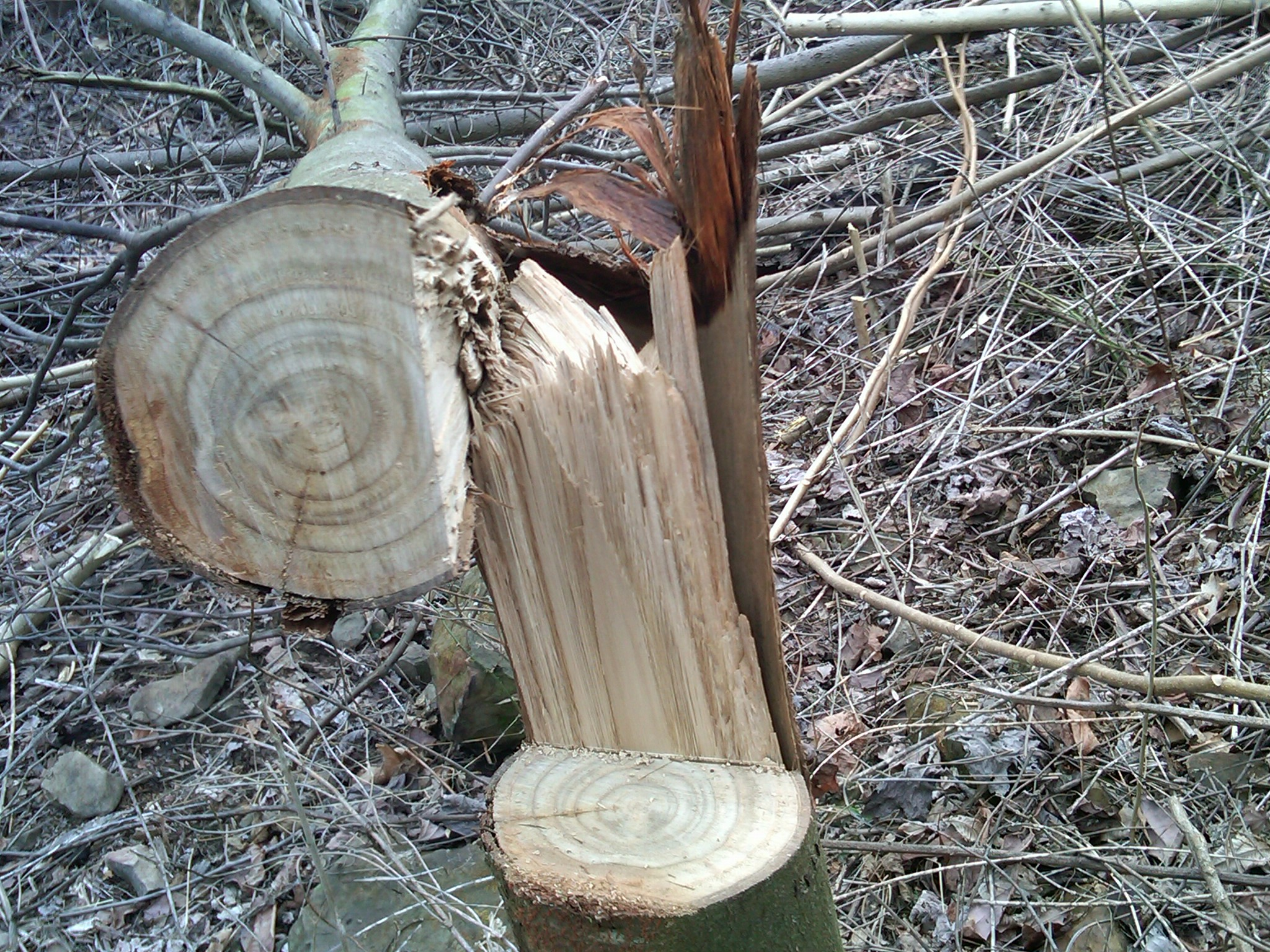 Chestnut tree fungus blight on the inner bark of a ~10 year old Chestnut tree in Adams County, Ohio